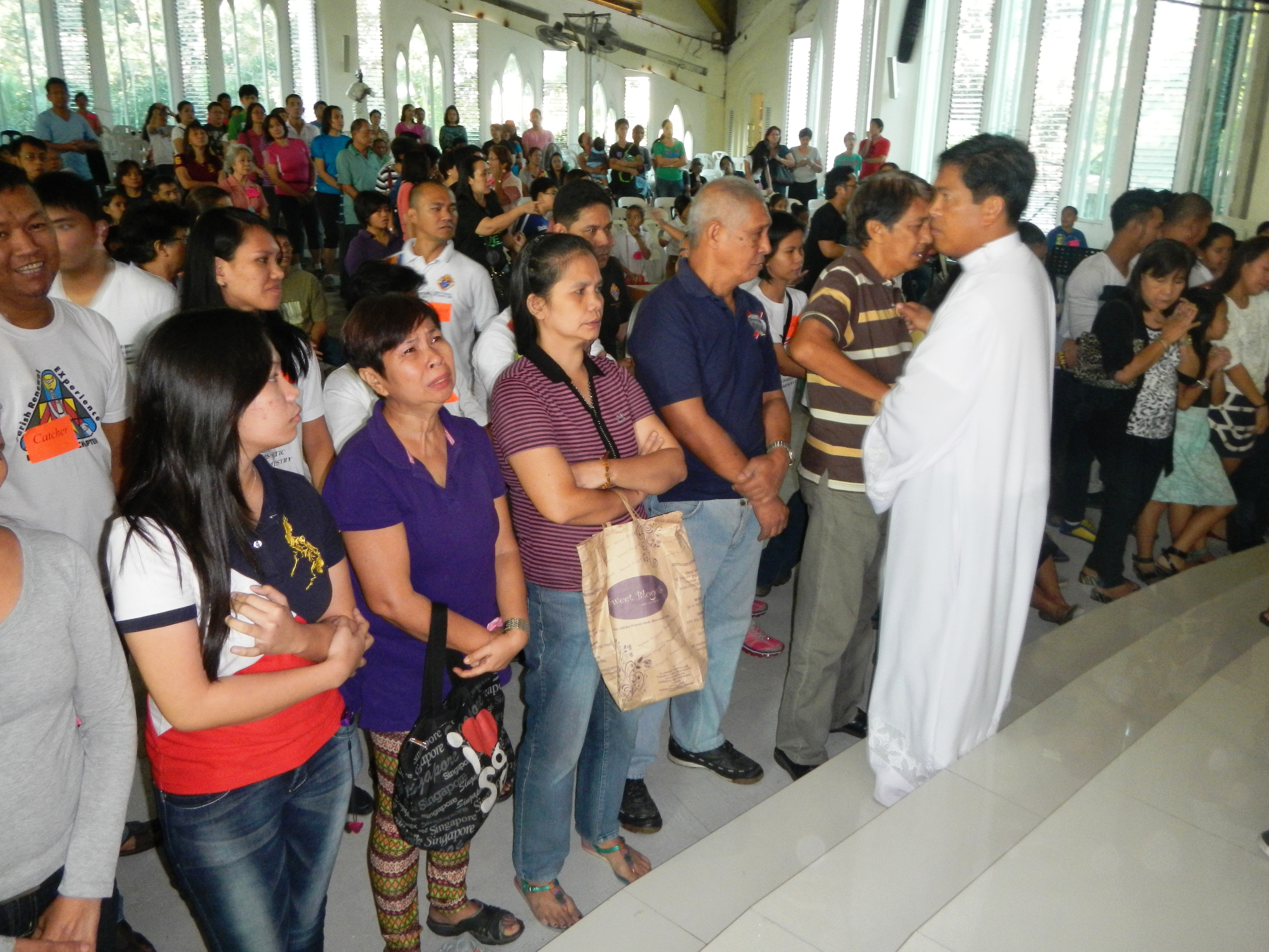 Photos of [Slain in the Spirit in the [Faith healing by Fr. Fernando Suarez healing the sick, the parishioners and ushers, aids of Fr. Suarez in the Santuario de San Vicente de Paul Shrine Parish Roman Catholic Diocese of Novaliches - founded in 2003 inside the St. Vincent Seminary Complex in 221 Tandang Sora Avenue, [Quezon City.